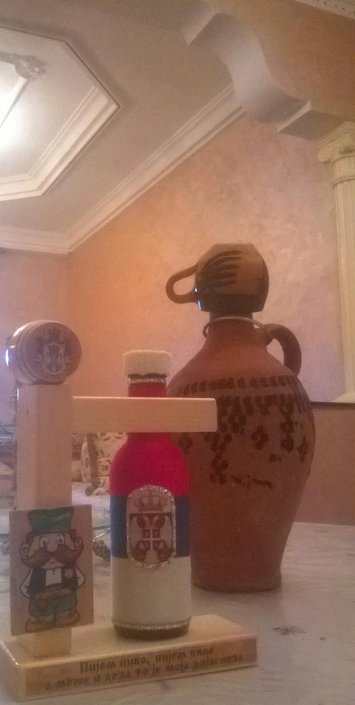 Rakia or rakija in special bottle, as the national drink of Serbia